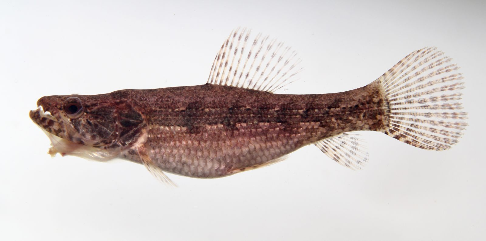 Erythrinidae Hoplias malabaricus